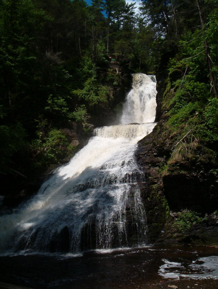 Dingman's Falls: Located in the Dingman's Falls scenic area west of route 209. Photo taken by me around noon on June 6, 2006.